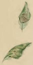 Stainton’s Natural History of the Tineina (1855–1873): Caloptilia alchimiella oak leaves rolled into a conical form by the larva